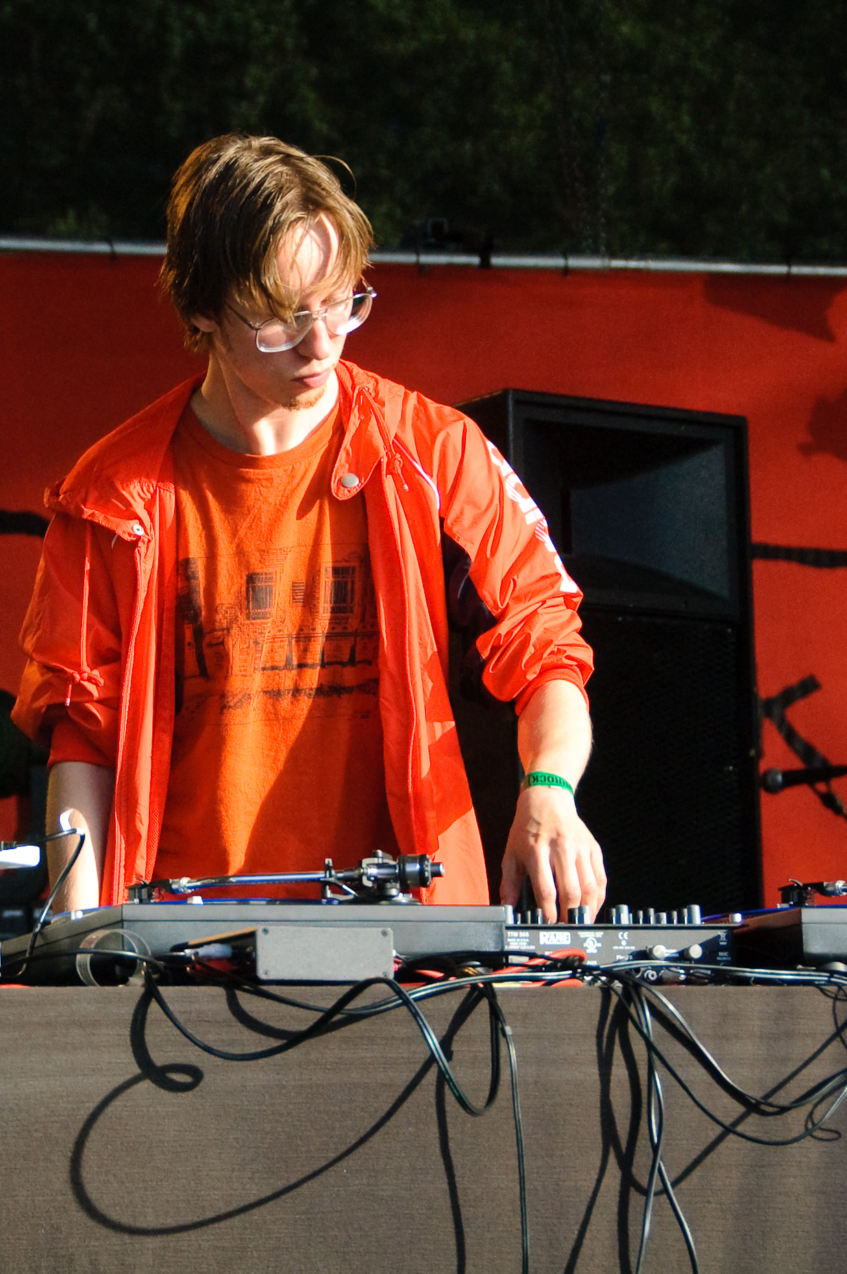 Finnish DJ Aksim performing at the Ilosaarirock festival in Joensuu, Finland.